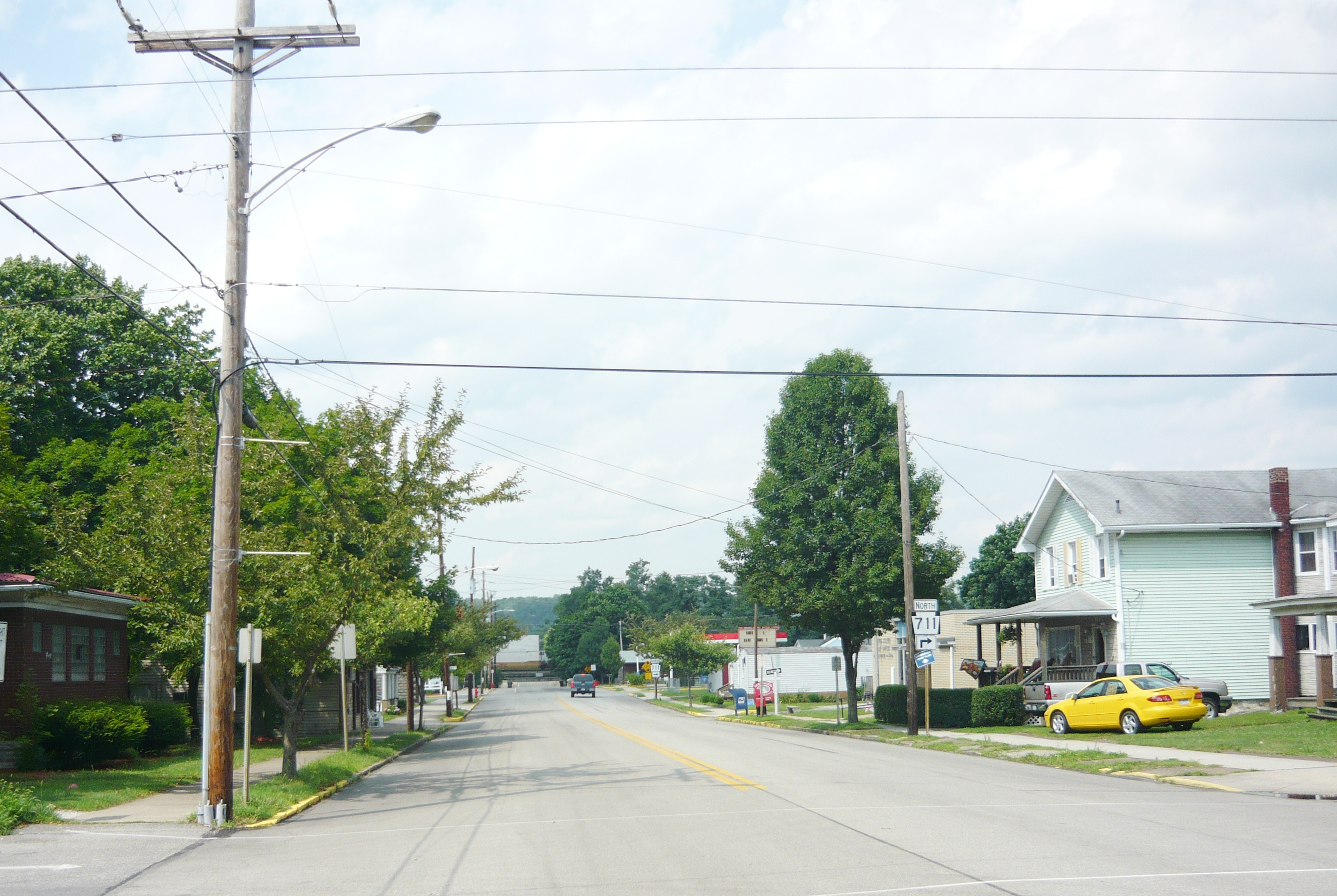 Ligonier Street (looking northward from 15th Street), New Florence, Westmoreland County, Pennsylvania.